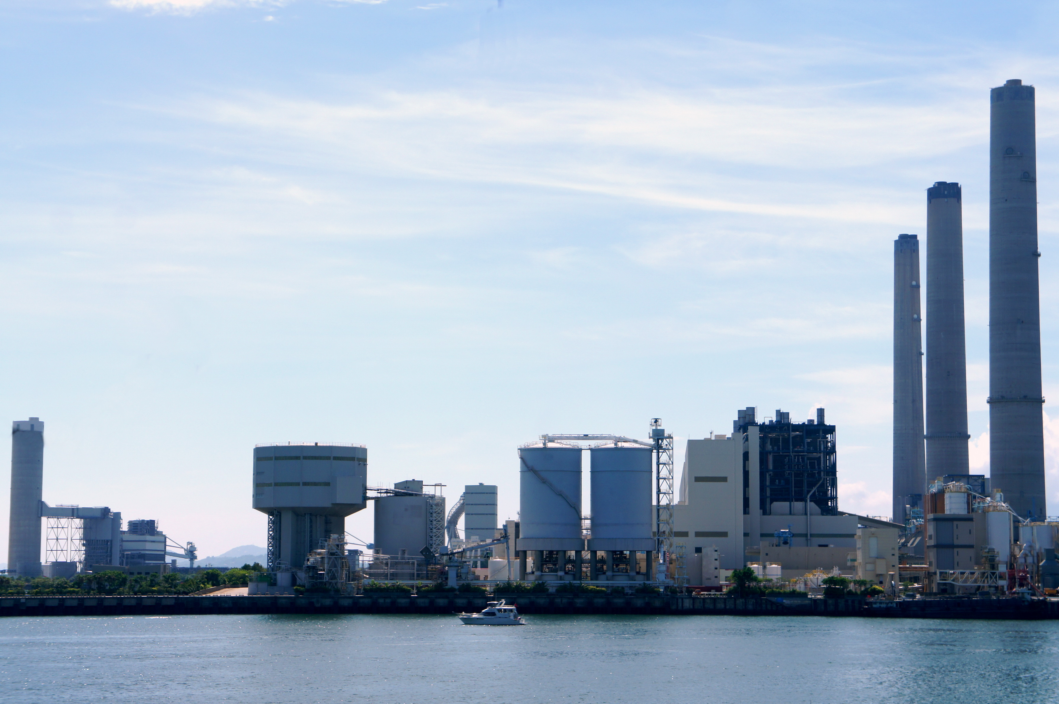 Lamma Power Station, Lamma Island